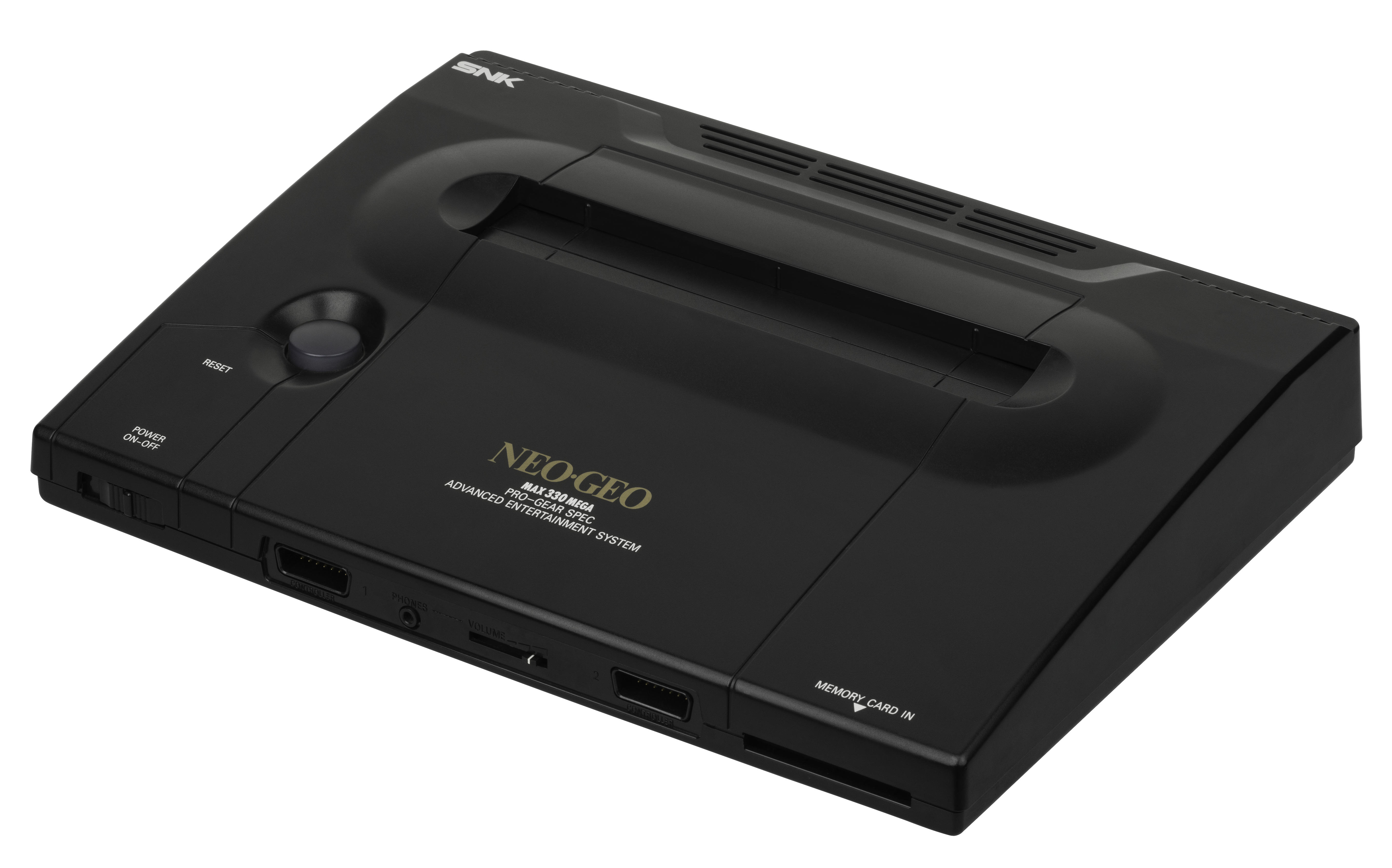 The Neo Geo AES (Advanced Entertainment System), a video game console released in the US in 1991. The Neo Geo AES was unique in that it was a niche system, marketed toward high-end consumers who wanted to play true arcade games in their home. The AES is merely a repackaged version of their Neo Geo MVS arcade system, where swappable games are stored on giant cartridges. The console was expensive, as were the games themselves, which could go for hundreds of dollars.